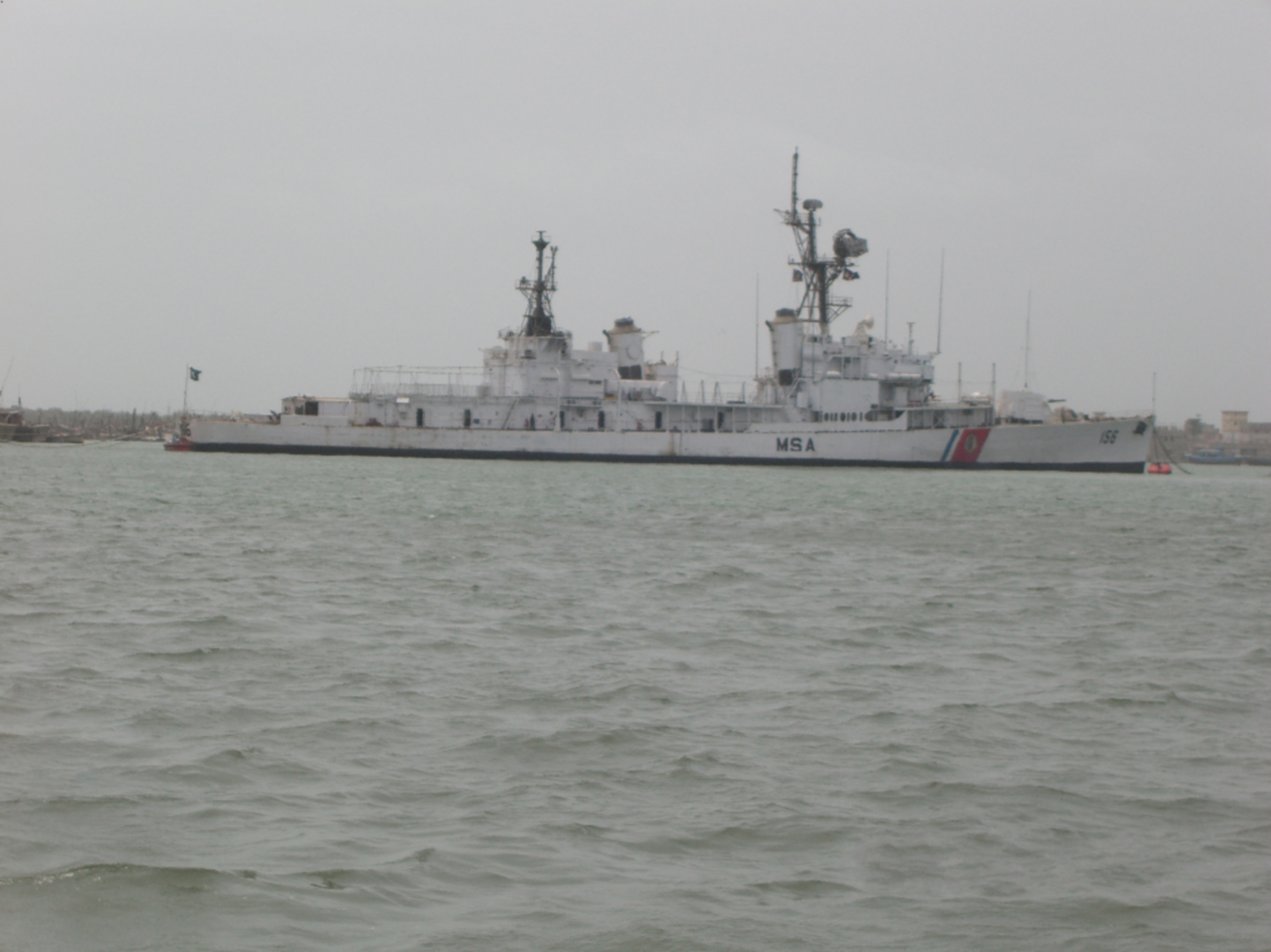 MSS Nazim (former Gearing-class destroyer USS Henderson (DD-785).) at the Karachi dockyard, getting some repair work done. She was operated by the Pakistan Maritime Security Agency usually patrolling the Exclusive economic zone.